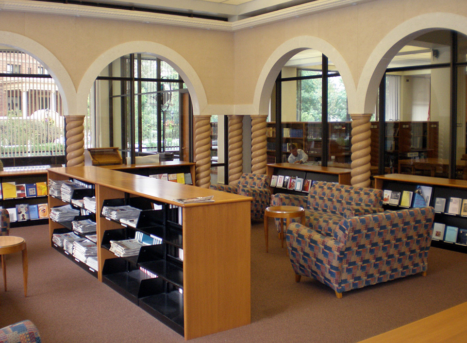 The Latin American Reading Room housing the Eduardo Lozano Latin American Collection in the Hillman Library at the University of Pittsburgh was designed by Peruvian native Victor Beeltran of L.D. Astorino & Associates to be reminiscent of a Spanish courtyard